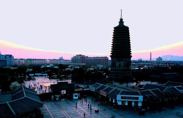 This photograph was taken on a beautiful day.